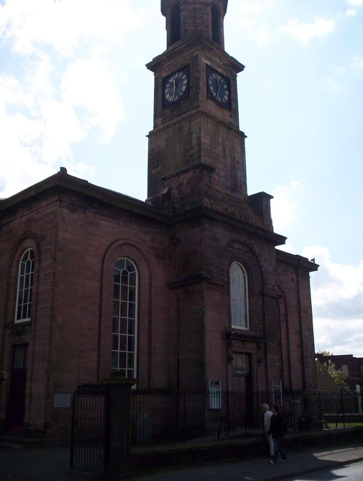 Loudoun Church of Scotland, Newmilns, East Ayrshire